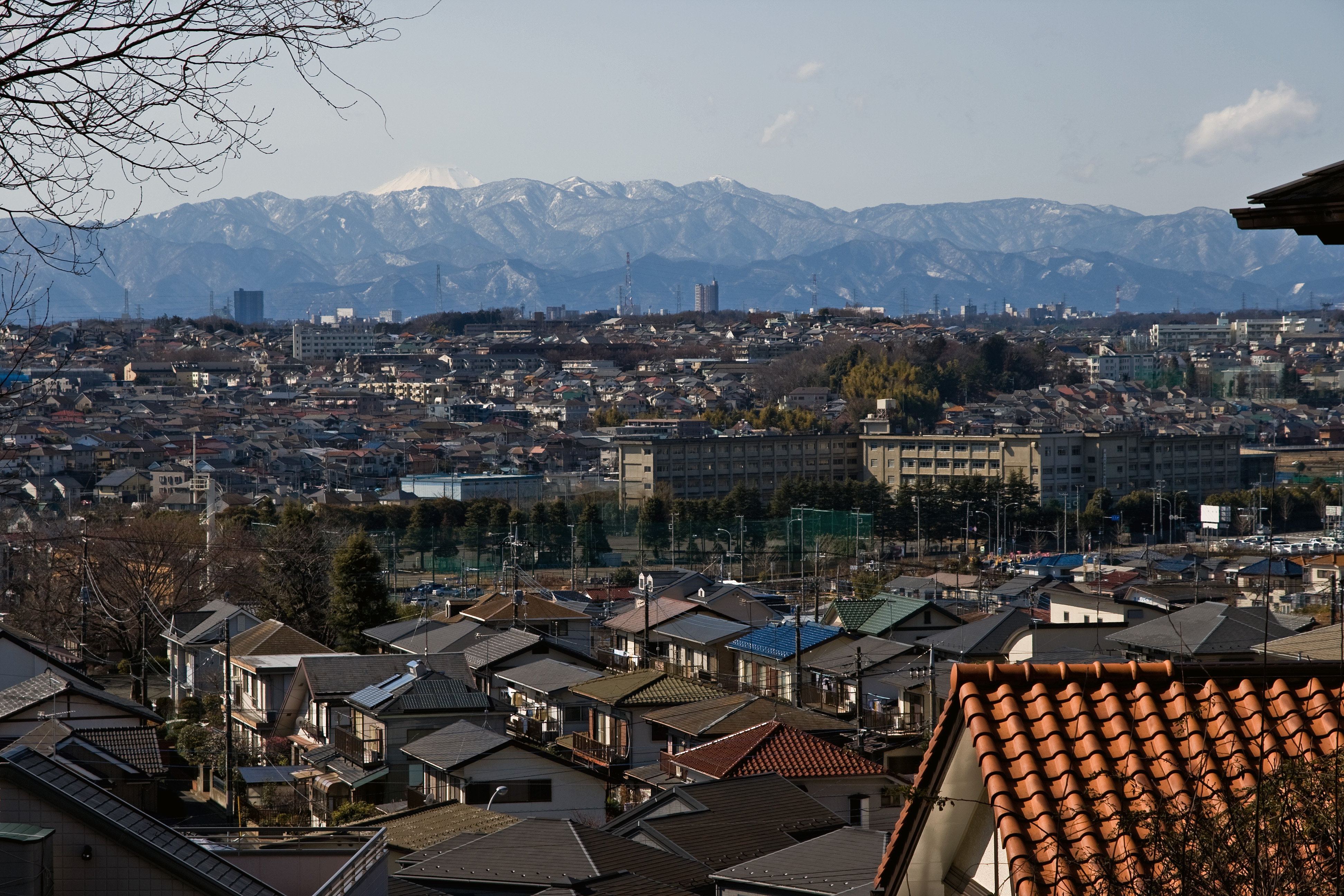 Ichigao high school and Mts. Tanzawa seen from Ichigao, Aoba ward, Yokohama city, Kanagawa pref, Japan.